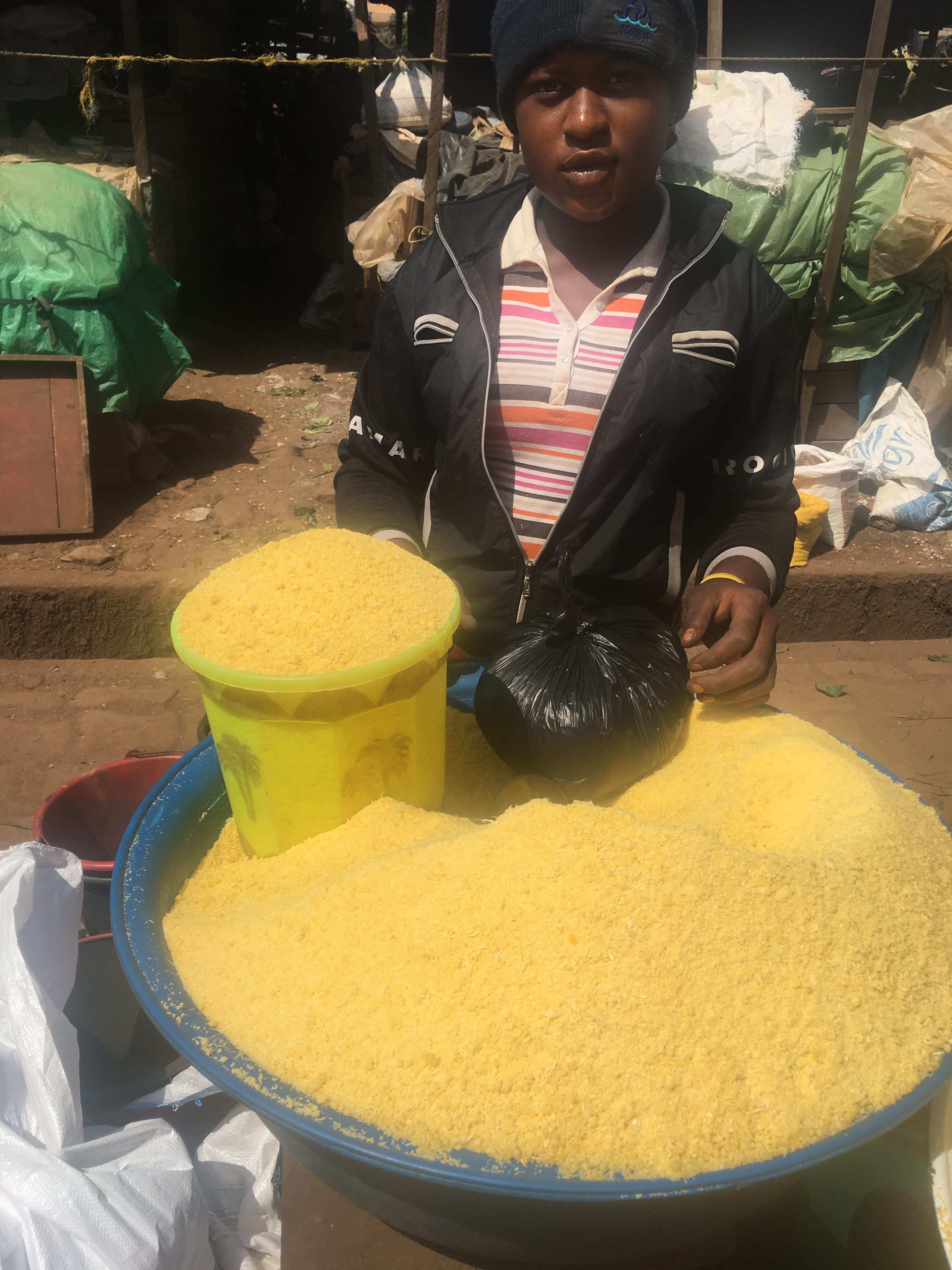 Bamenda Cameroon This is an image of "African people at work" from Cameroon